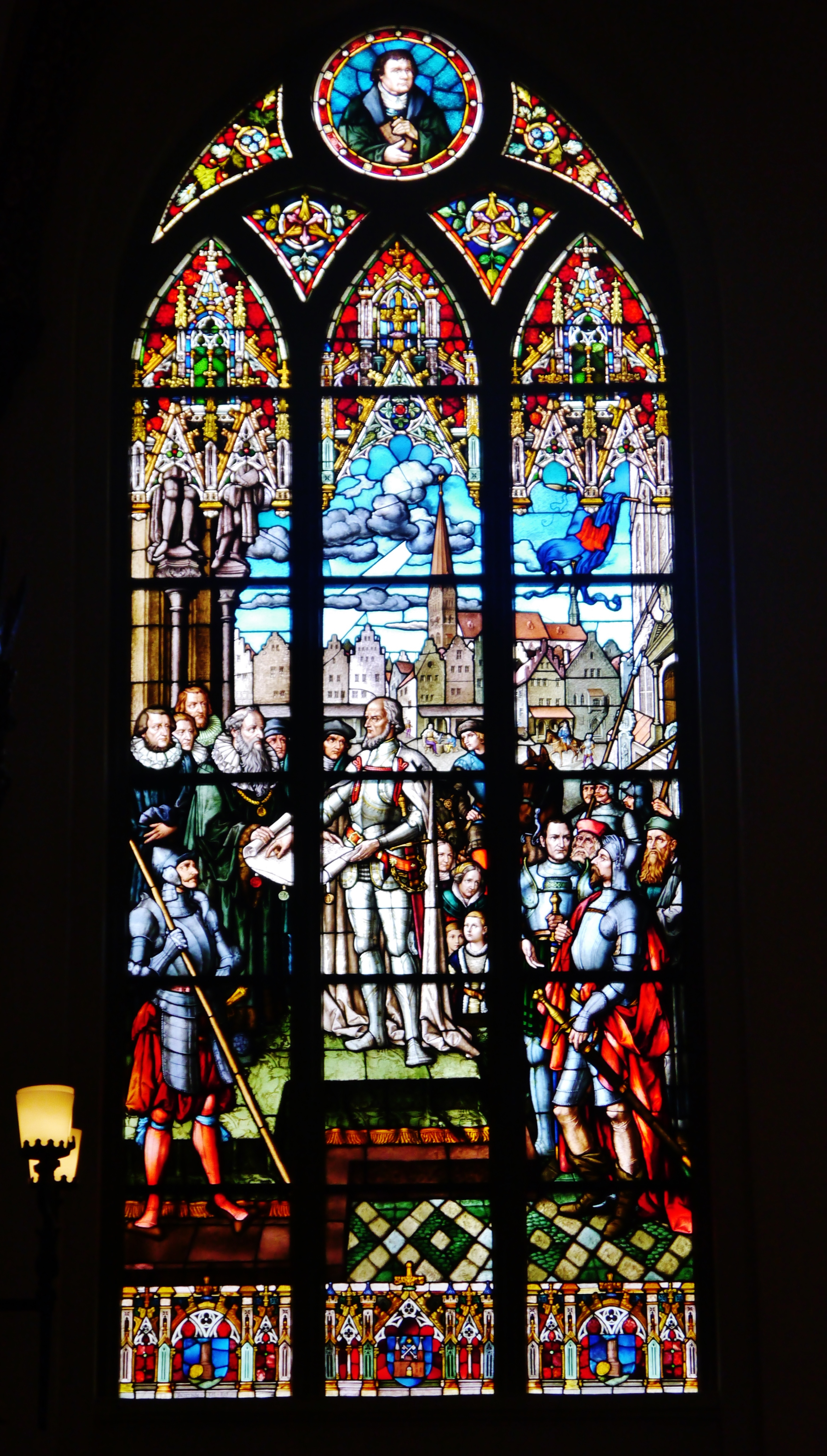 Stained Glass Windows of the Cathedral, Riga, Latvia